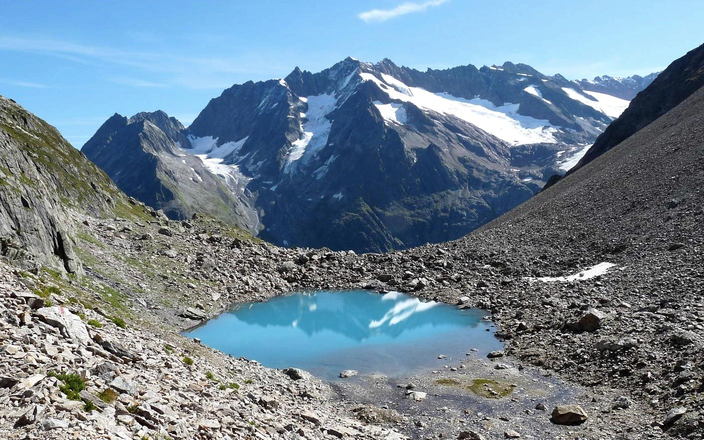 Hintertierberg